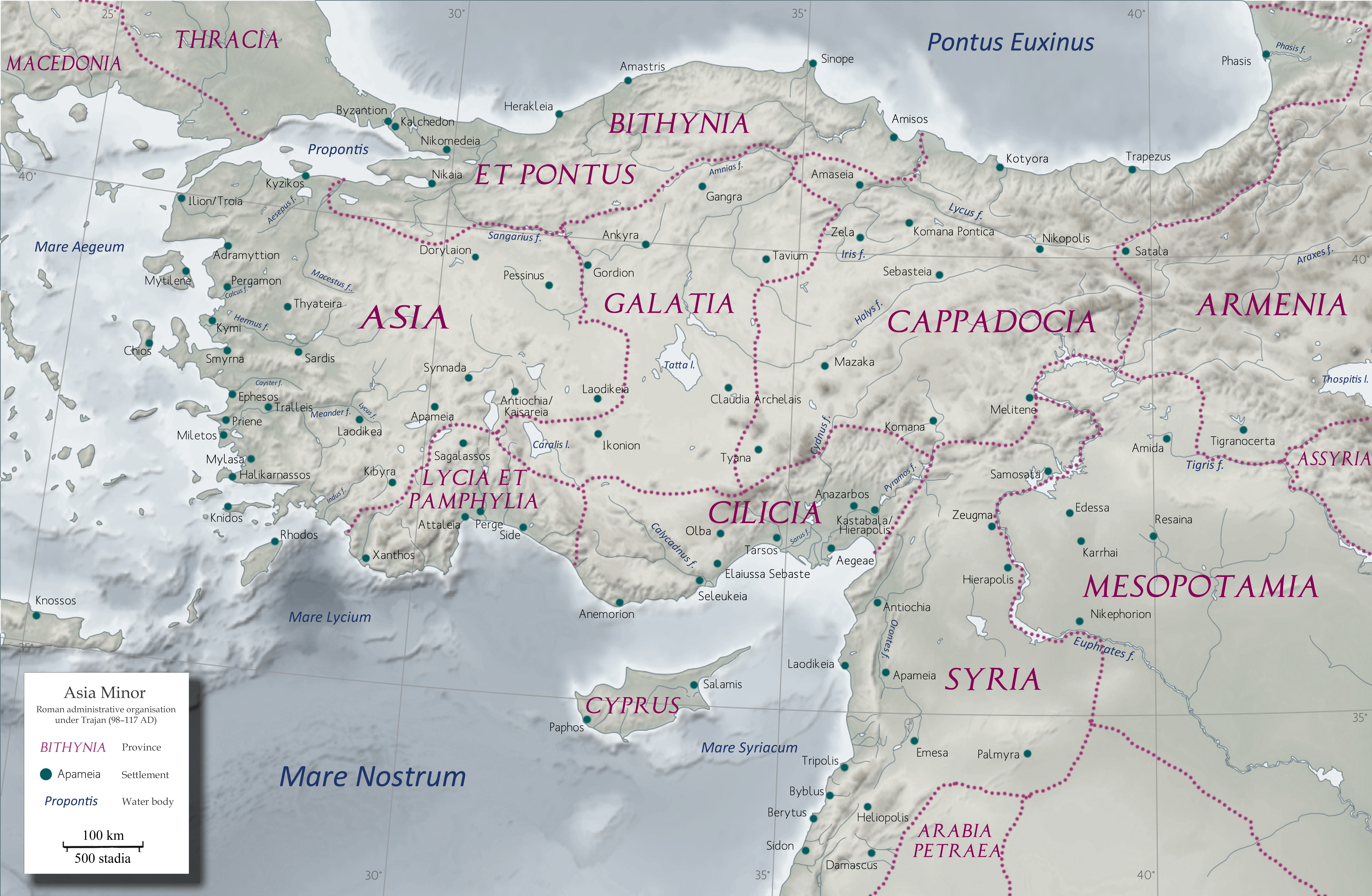 Asia Minor in the 2nd century AD - general map - Roman provinces under Trajan - bleached - English legend